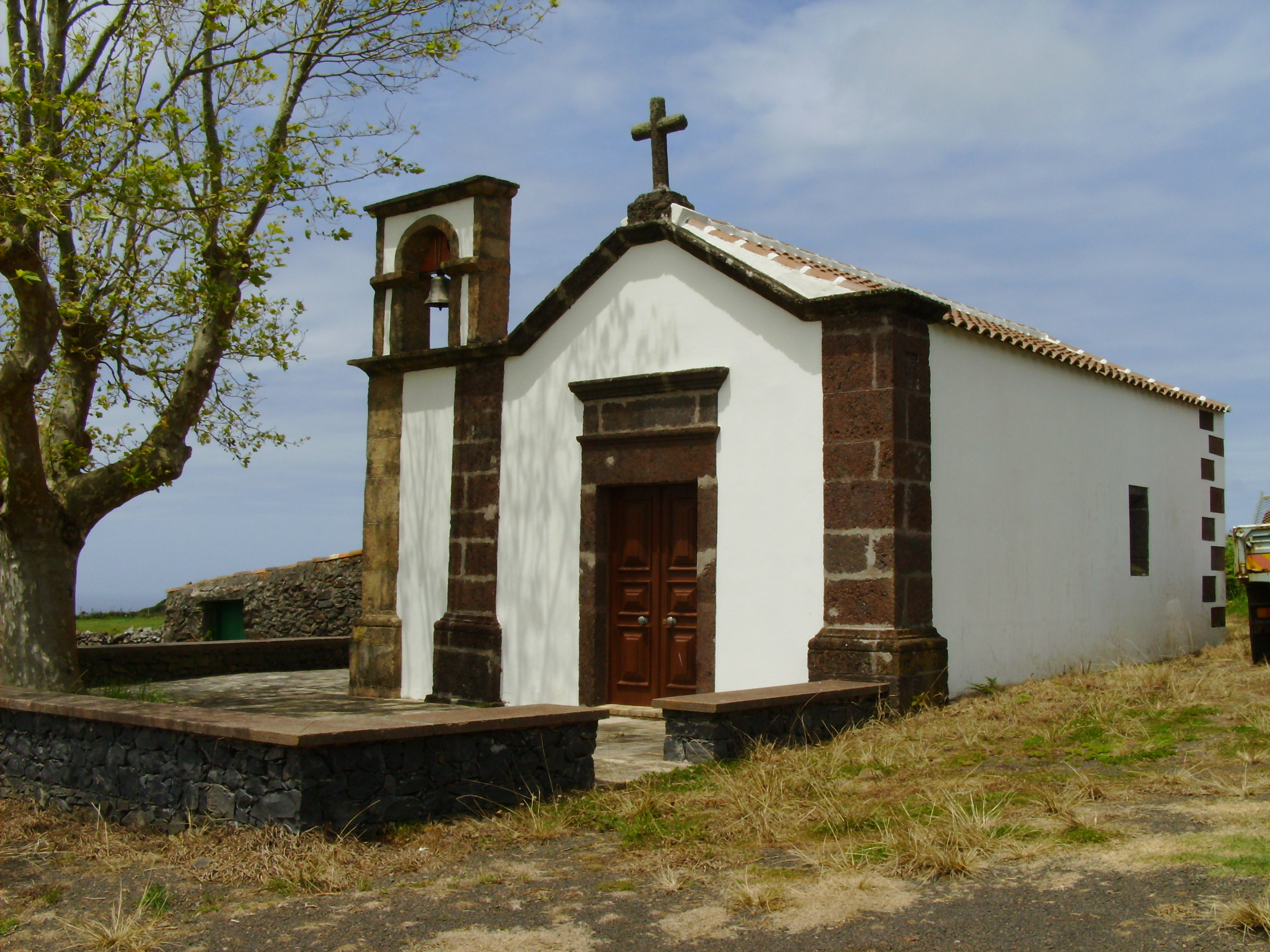 Chapel of Nossa Senhora de Monserrate, Santa Maria (Azores), Portugal